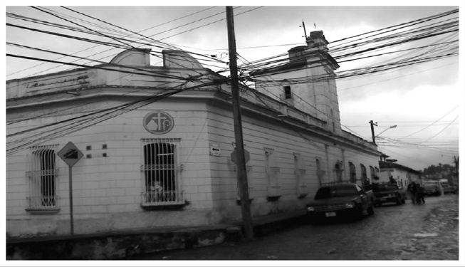 Episcopal Palace in Santa Rosa de Copan, Honduras.